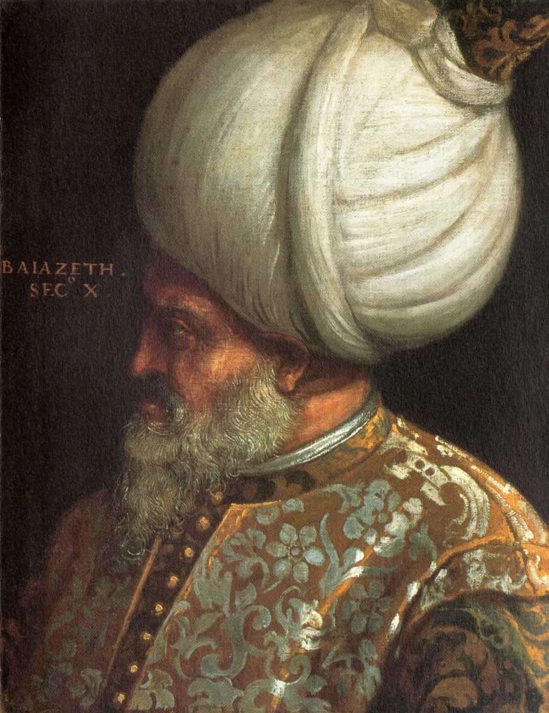 8th Sultan of the Ottoman Empire, Bayezid II (1447 - 1512).